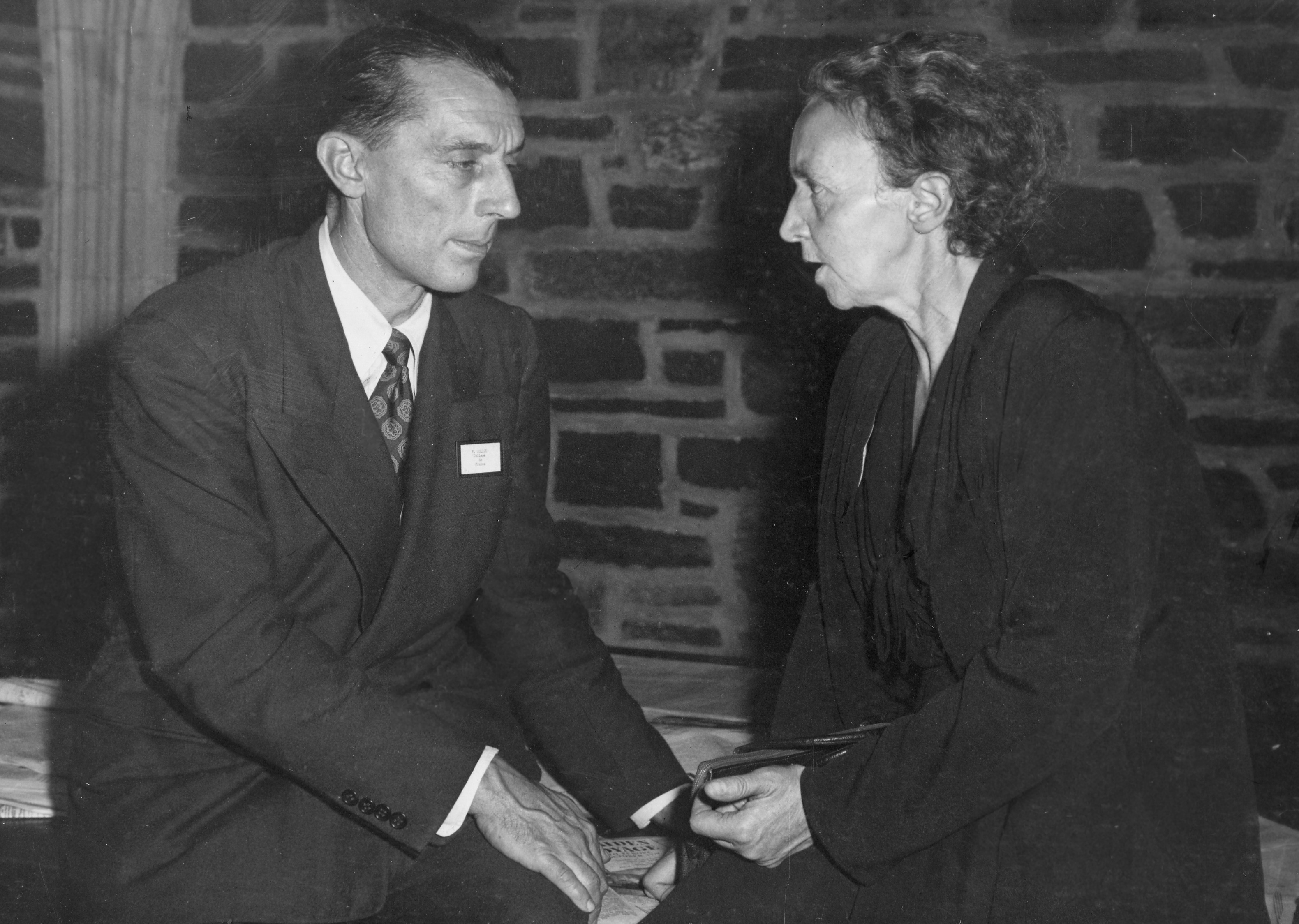 Frédéric Joliot (1900-1958) and Iréne Joliot-Curie (1897-1956) had been jointly awarded the Nobel Prize for Chemistry in 1935. This photograph may have been taken in the 1940s. Local number: SIA Acc. 90-105 SIA2008-4490